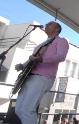 Cropped from 'Imperialteen.jpg' to only show Roddy Bottum.